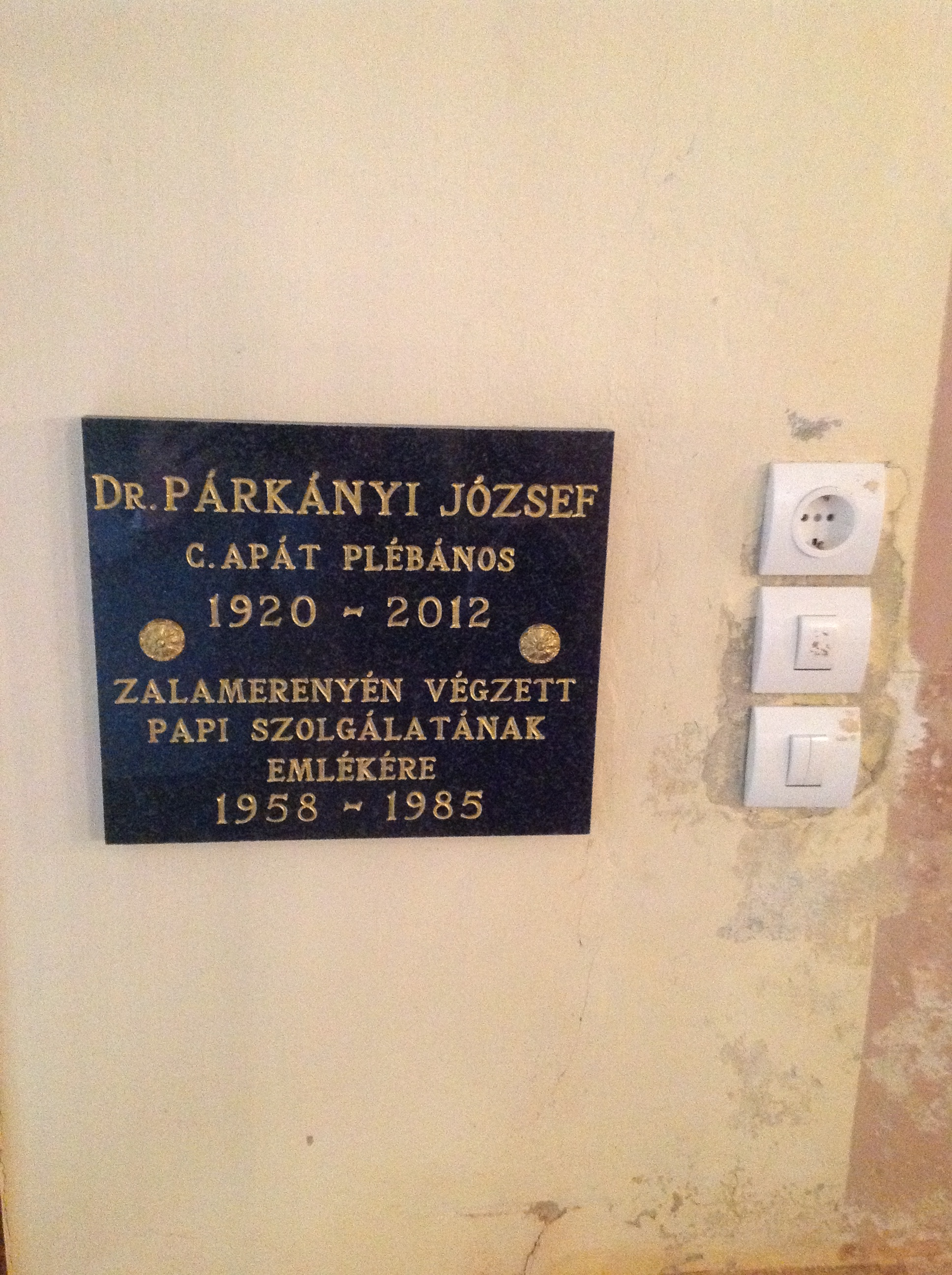 Abbot József Pákányi's plaque in the church of Zalamerenye